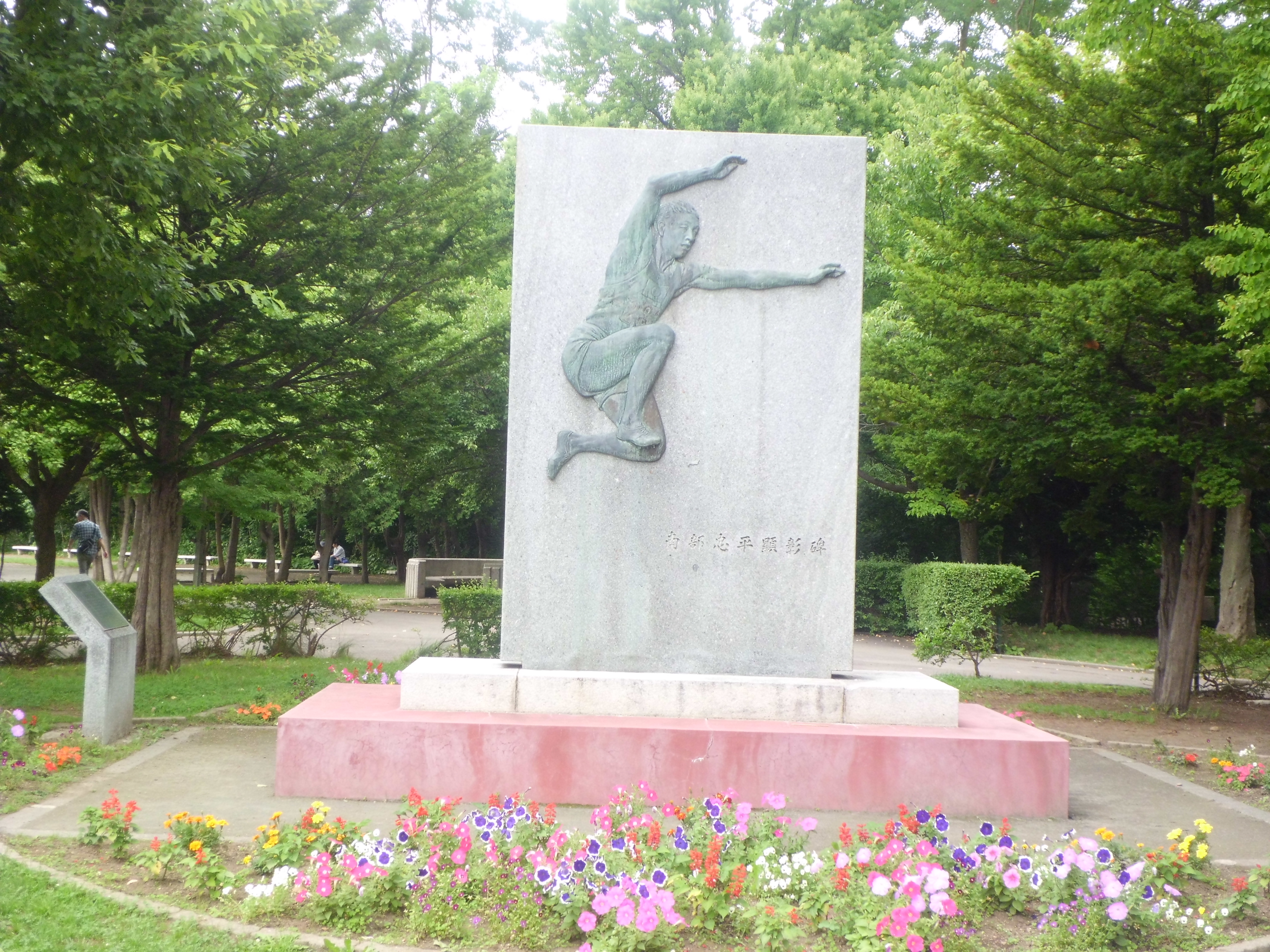 Monument of Chūhei Nambu